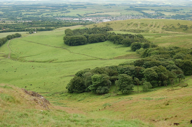 Site of the Battle of Rullion Green 1666. The site is in the grassy area enclosed by the woodland strip. See 1160519 for some historical background to this battle. The loops on the hillside just beyond are rather more modern, made by trials motorbikes.